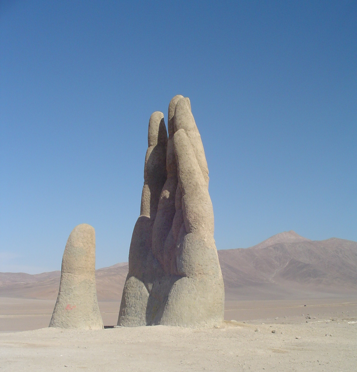 Desert's Hand. Sculpture by Mario Irarrázabal.Mano del Desierto